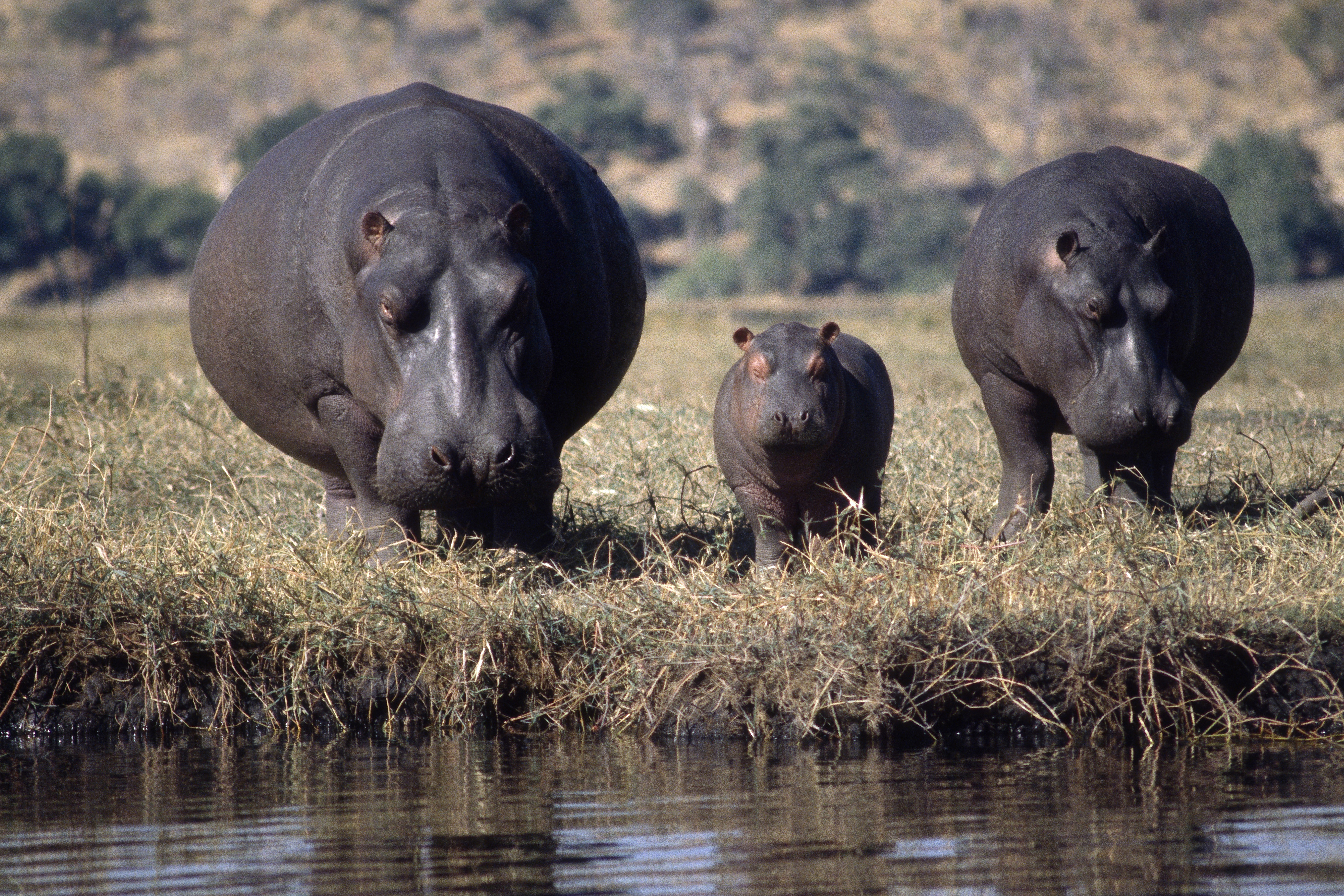 Hippo family, seen from Chobe River Chobe NP, Botswana